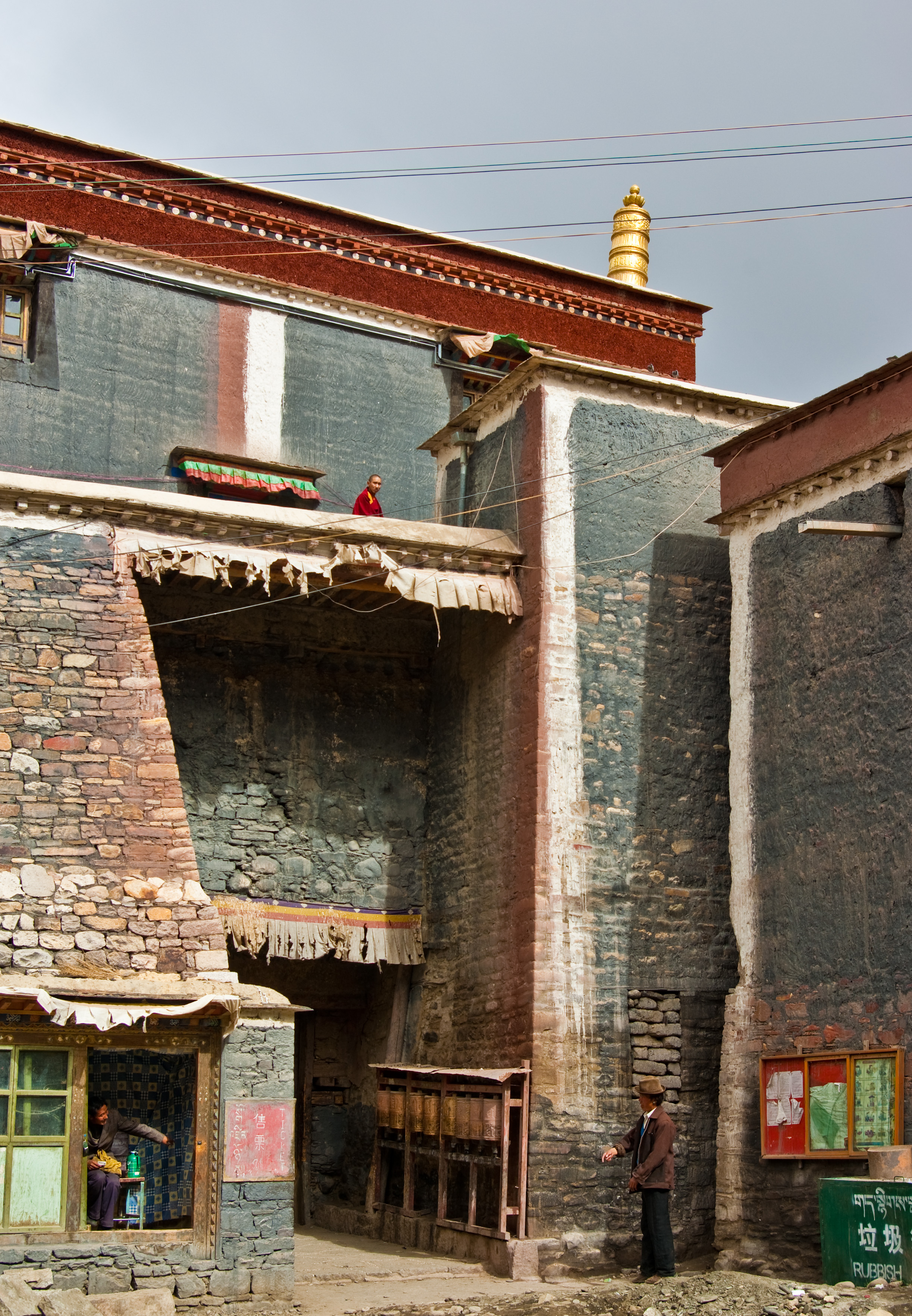 sakya monastery